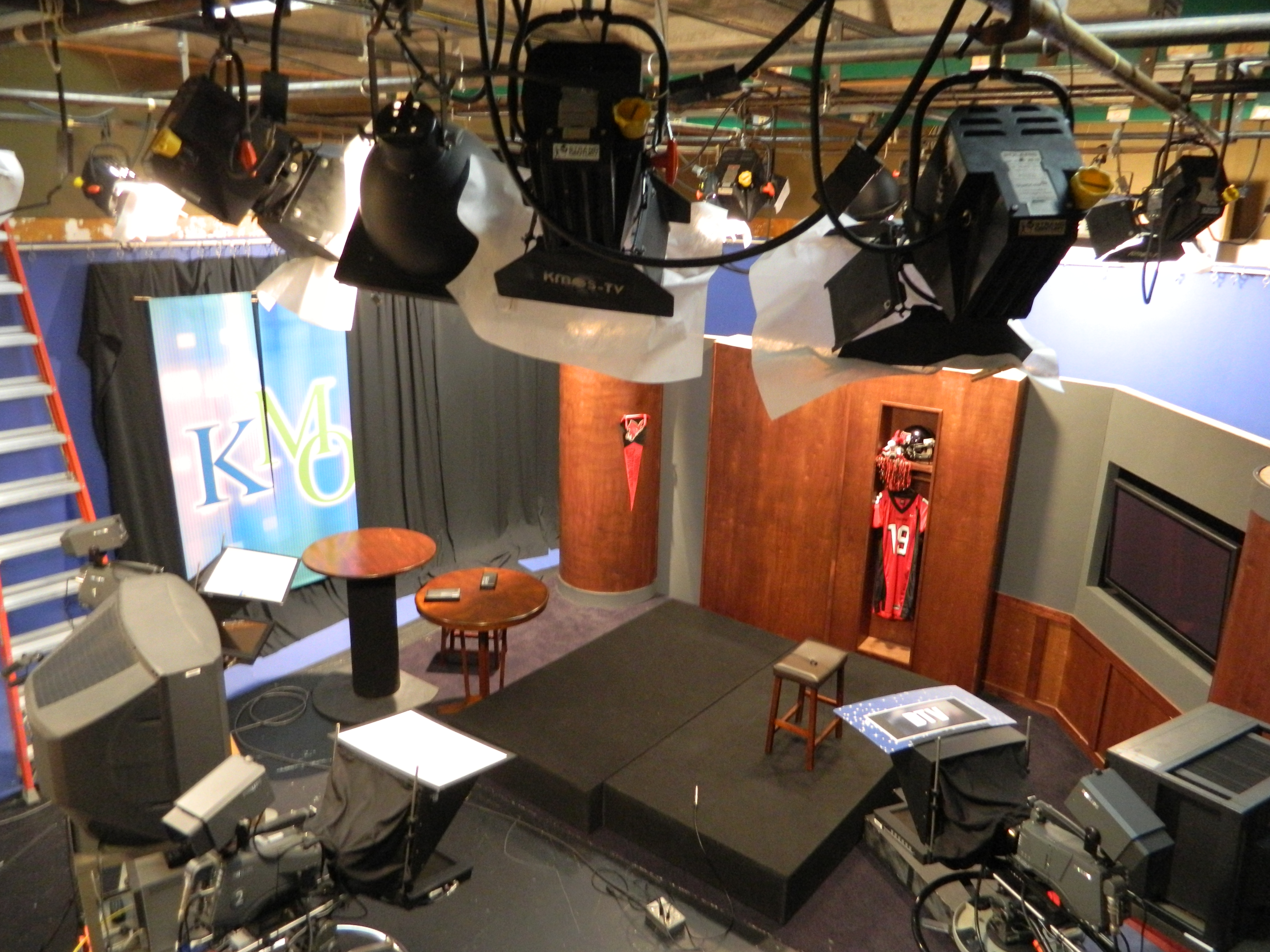 Inside KMOS-TV studio. The most recent USDA Rural Development grant will upgrade all cameras to HD.